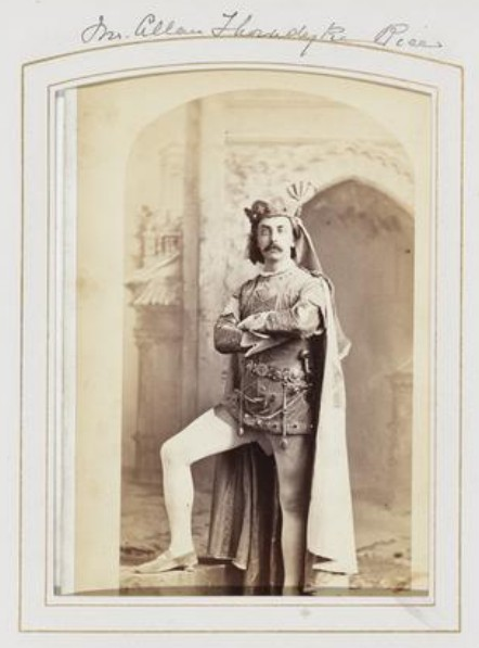 C. Allen Thorndike Rice at costume ball hosted by William K. Vanderbilt on 26 March 1883 at his home at the corner of 51st Street and Fifth Avenue in New York City.